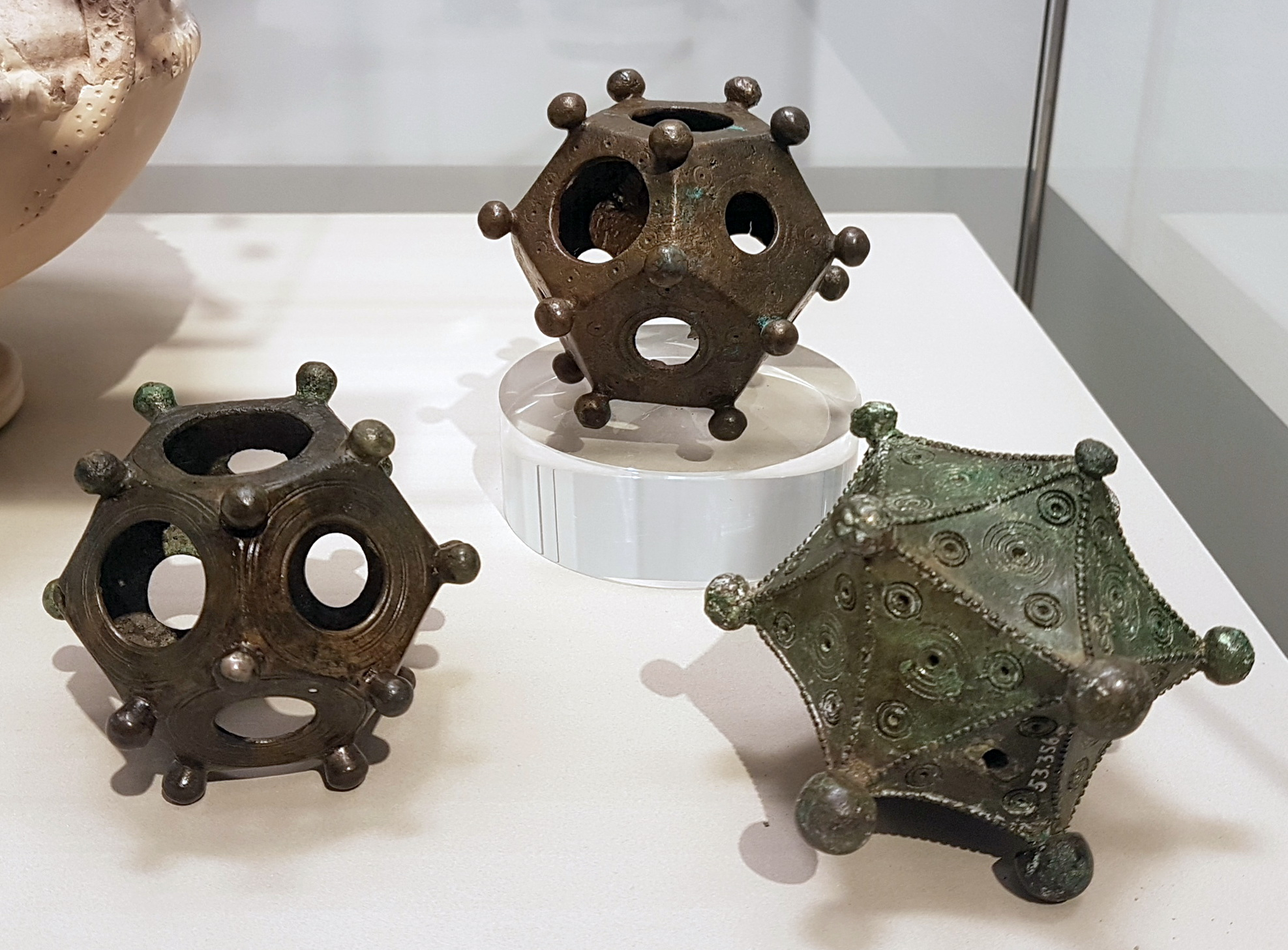 Two ancient Roman bronze dodecahedrons and an icosahedron (3rd c. AD) in the Rheinisches Landesmuseum in Bonn, Germany. The dodecahedrons were excavated in Bonn and Frechen-Bachem; the icosahedron in Arloff.